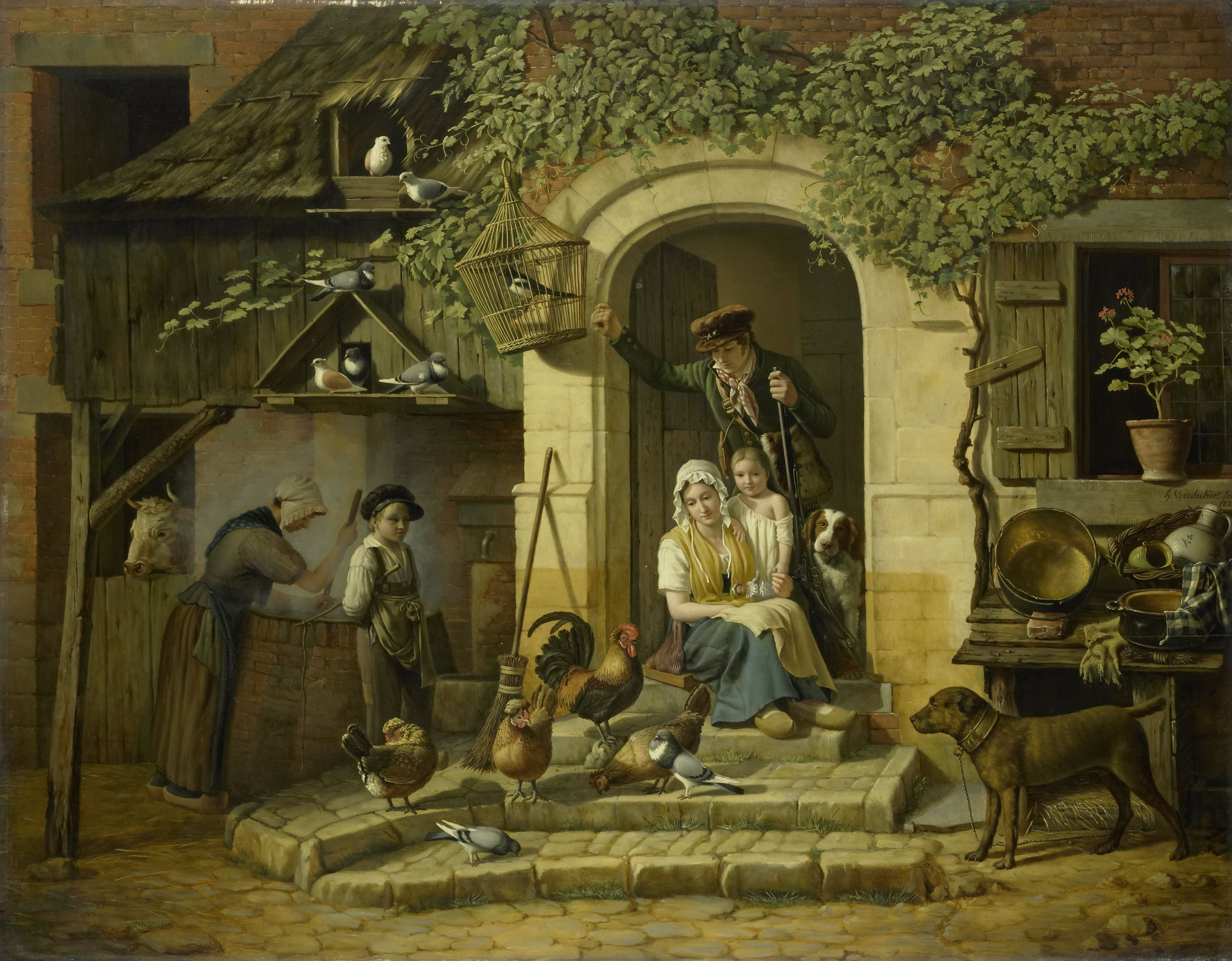 A family in front of the door of the house. Mother with child sitting in the doorway, behind her a young man in hunting clothes. Doves and chickens amble on the stairs. To the left a maid at the well, to the right is a dog on a chain.